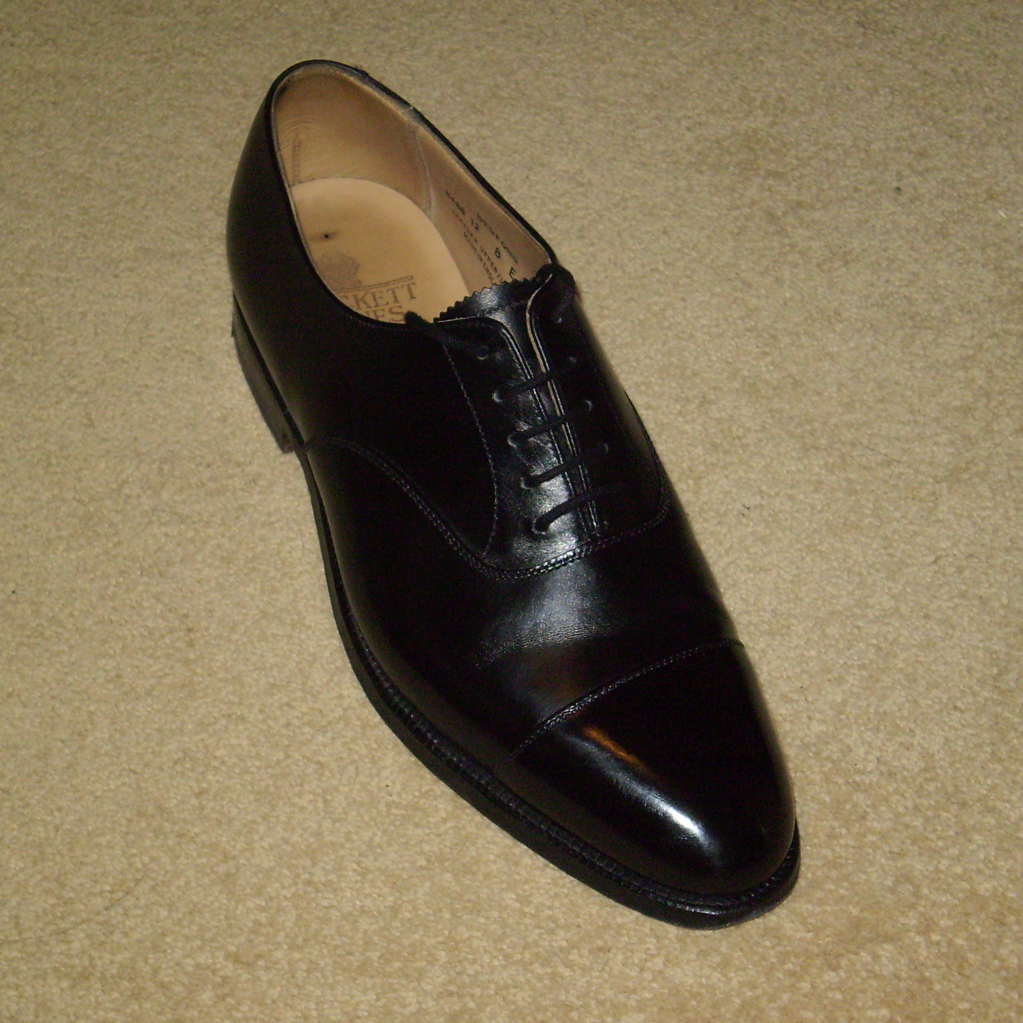 A man's cap toe oxford dress shoe